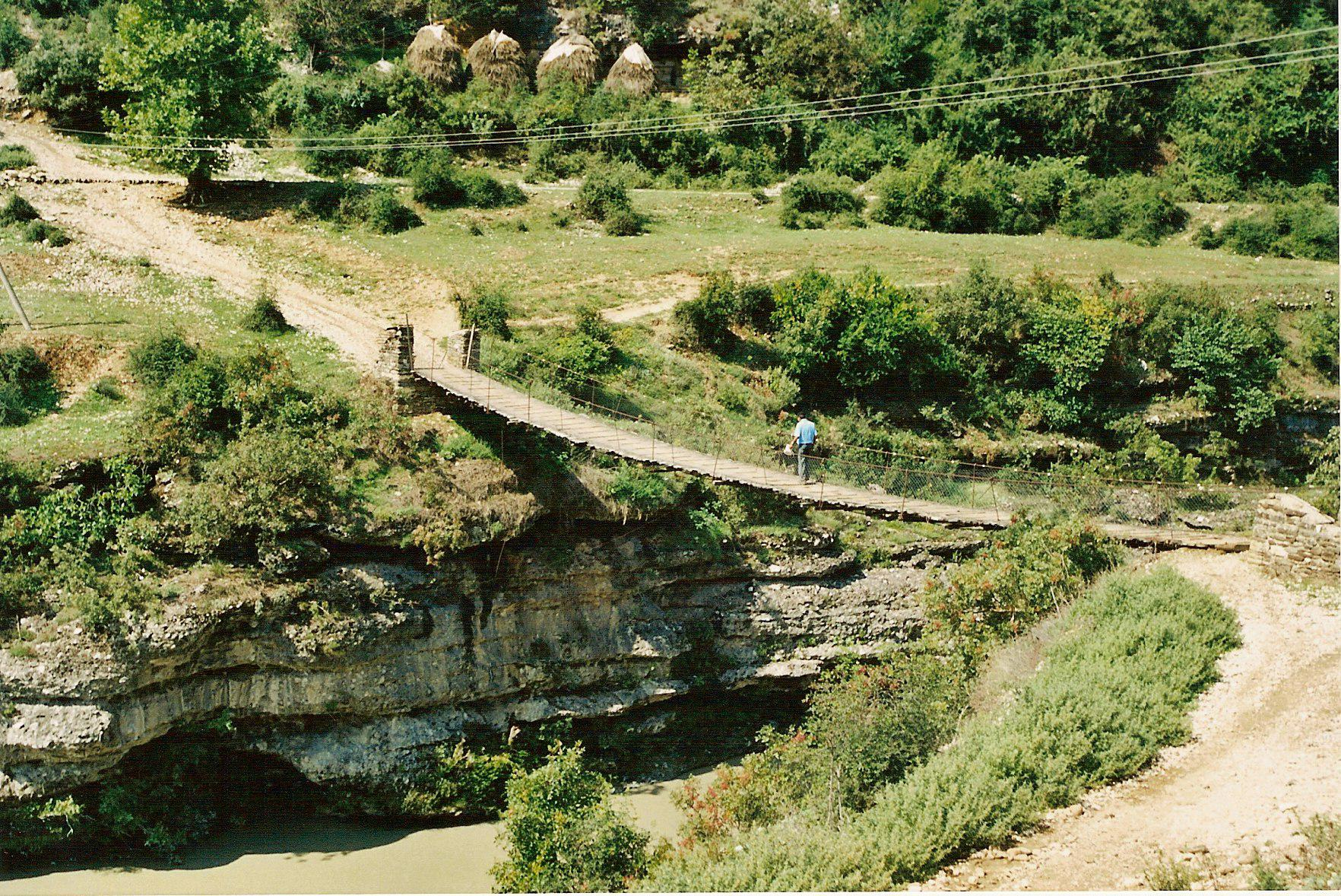 Bridge over Vjosë River in Përmet district, Albania